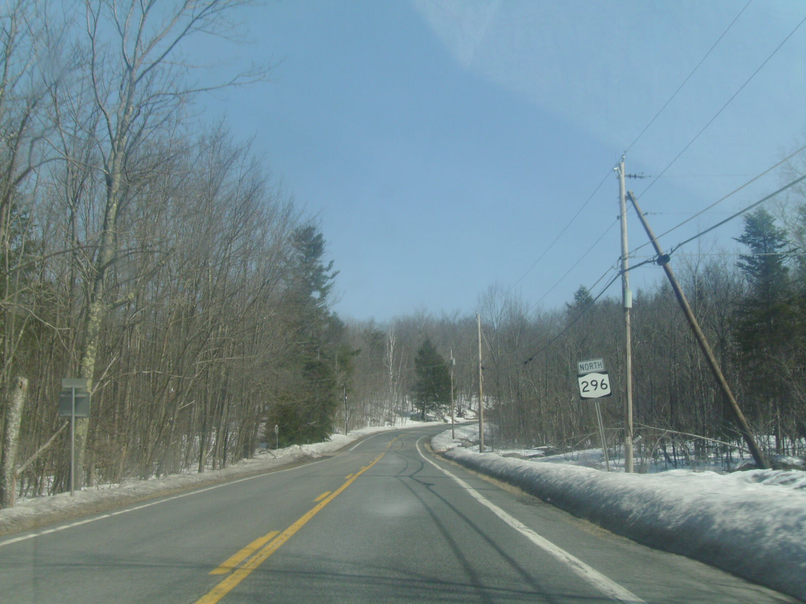 New York State Route 296 northbound through Greene County, New York.